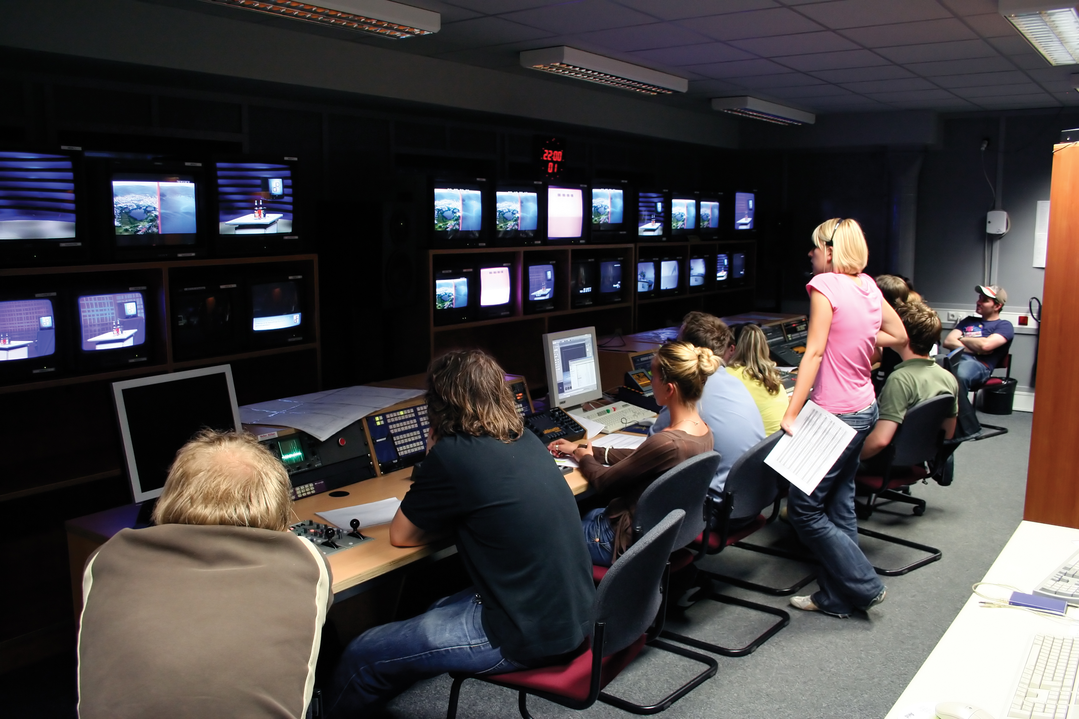 iSTUFF direction in the "Medienlabor II" at the TU Ilmenau